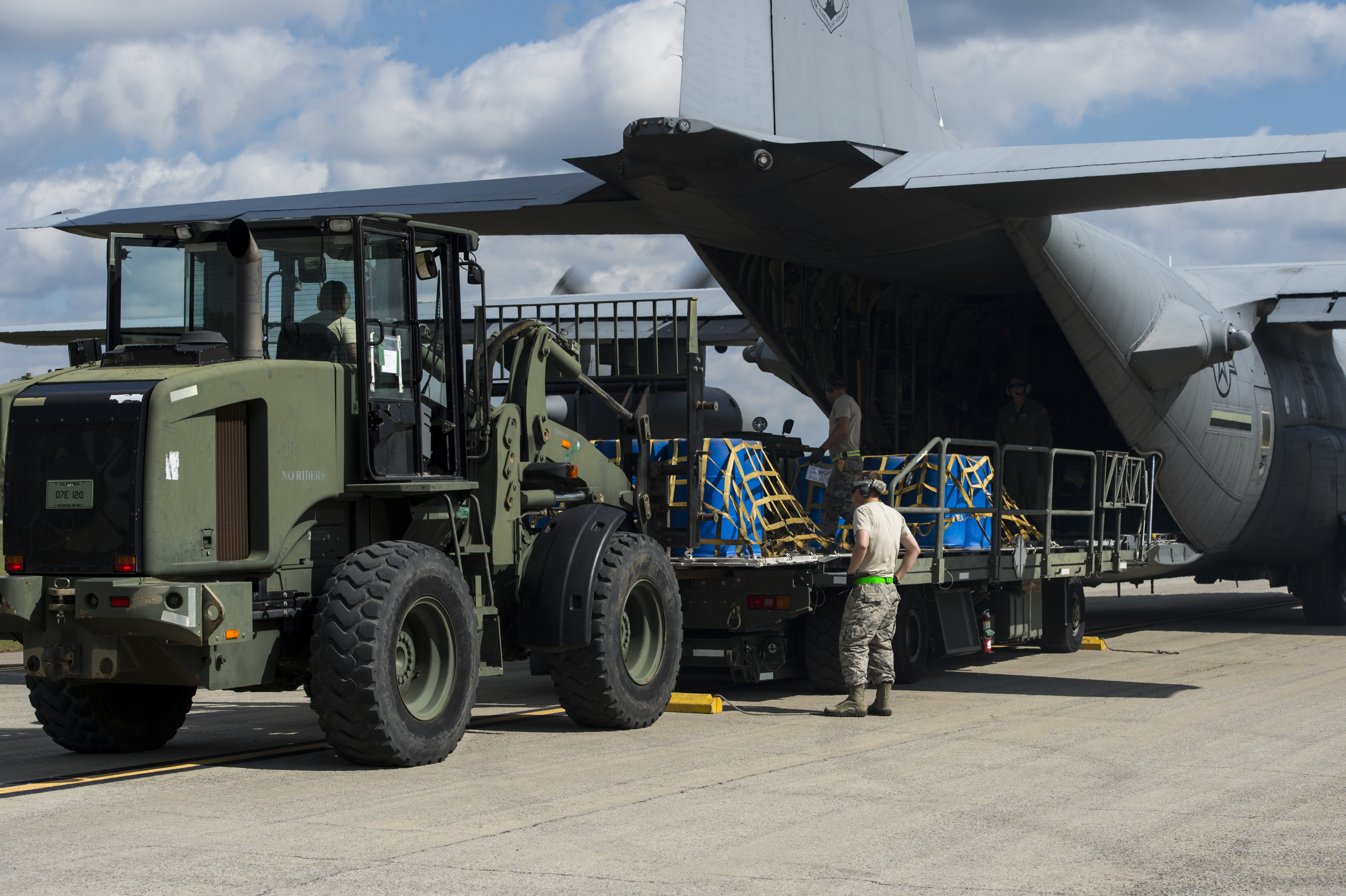 A West Virginia Air National Guard C-130 Hercules prepares to offload cargo at Camp Shelby Joint Forces Training Center, Miss., during Exercise Turbo Distribution, Oct. 28, 2015. TD is a joint-funded series of U.S. Transportation Command Field Training Exercises to train Joint Task Force - Port Opening Aerial Port Debarkation and Seaport of Debarkation capabilities. (U.S. Air Force photo by Staff Sgt. Kenneth W. Norman/Released)